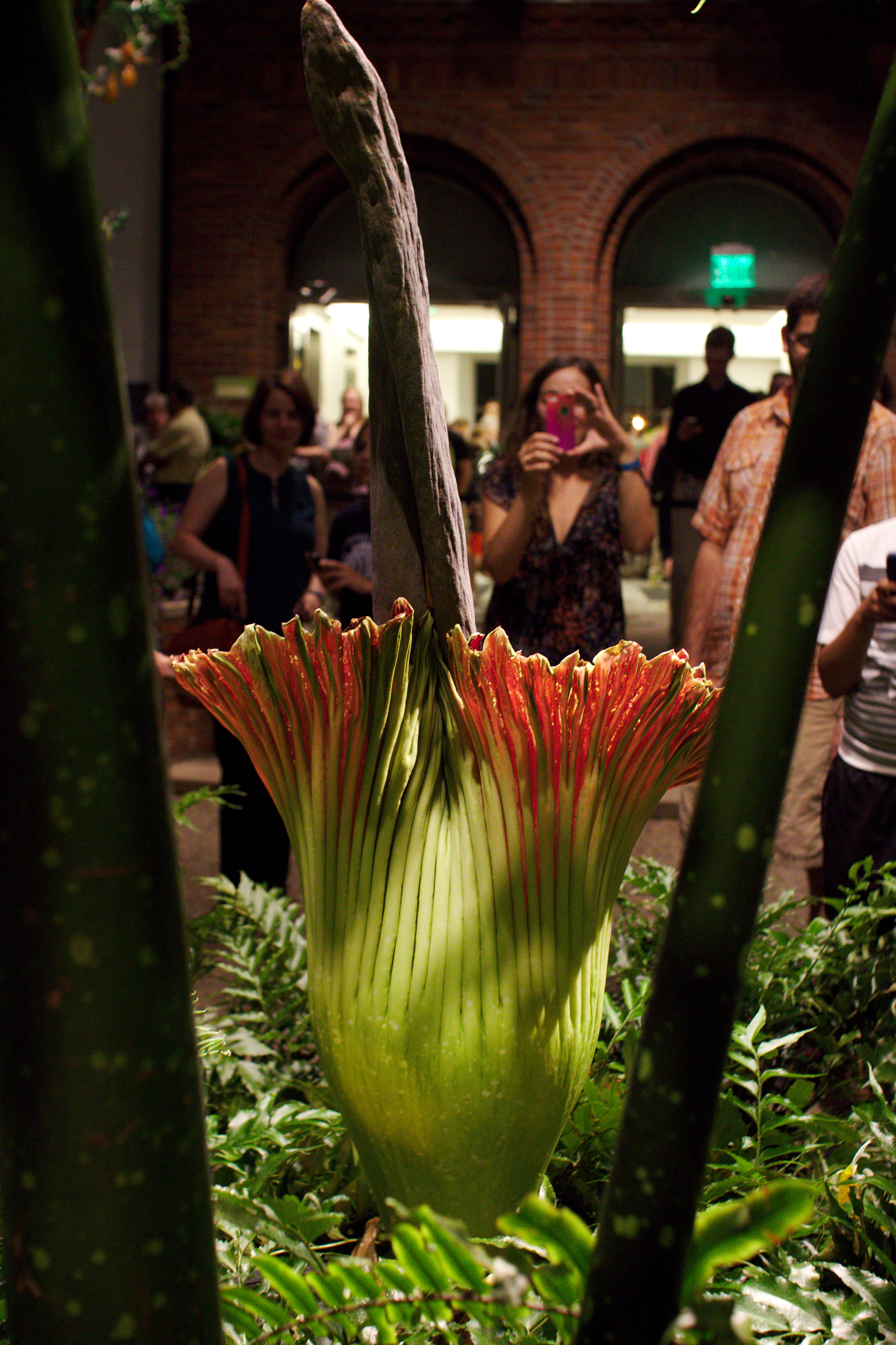 Amorphophalus titanum (corpse flower) on display at Phipps Conservatory & Botanical Gardens. The corpse flower that bloomed in August 2013 is called Romero (after George A. Romero). Two others in leaf are on display nearby.